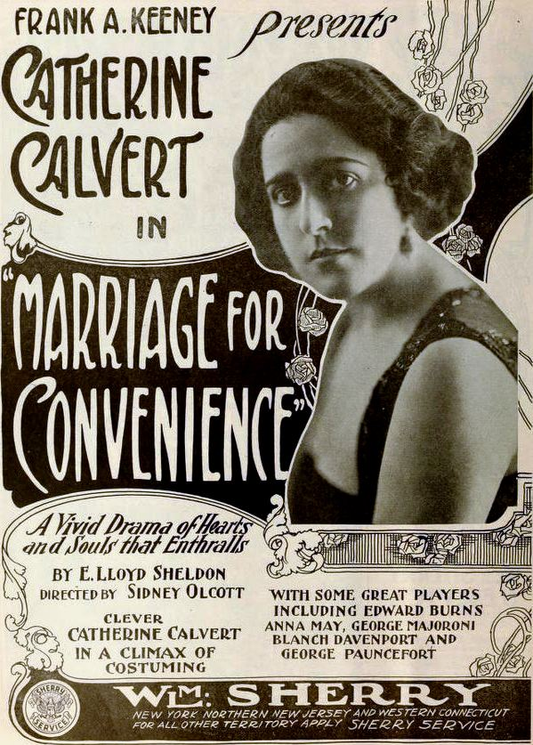 Ad for the American film Marriage for Convenience (1919) with Catherine Calvert, on page 1300 of the March 8, 1919 Moving Picture World.